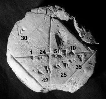 A black and white rendition of my own photograph of the Yale Babylonian Collection's Tablet YBC 7289 (c. 1800–1600 BCE), showing a Babylonian approximation to the square root of 2 (1 24 51 10 w: sexagesimal) in the context of Pythagoras' Theorem for an isosceles triangle. The tablet also gives an example where one side of the square is 30, and the resulting diagonal is 42 25 35 or 42.4263888...(30 x square root of 2). All use should attribute both me (mentioning and the Yale Babylonian Collection as the original holder of the tablet. Author: Bill Casselman (mailto: )